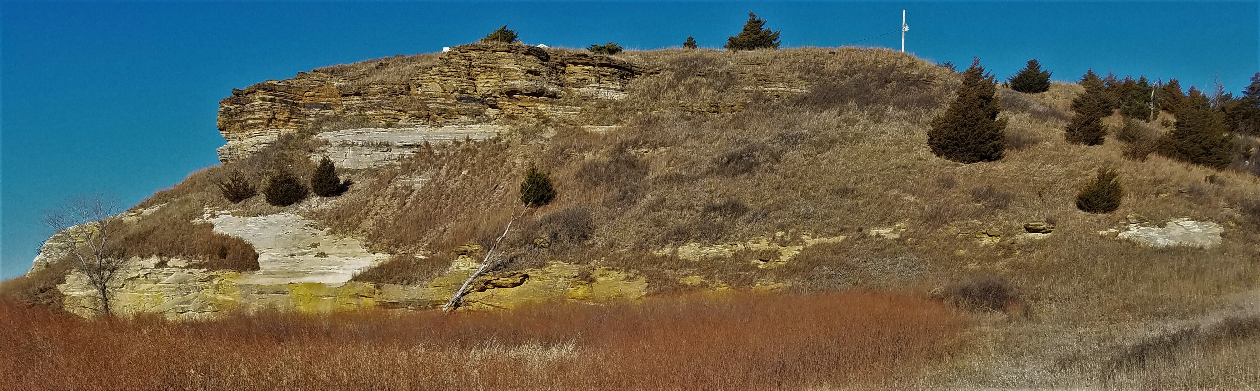 Dakota Formation visible from northbound Kansas Highway K-232 (Post Rock Scenic Byway) approaching Wilson Lake. This is the "poster hill" of the Dakota formation in Kansas.